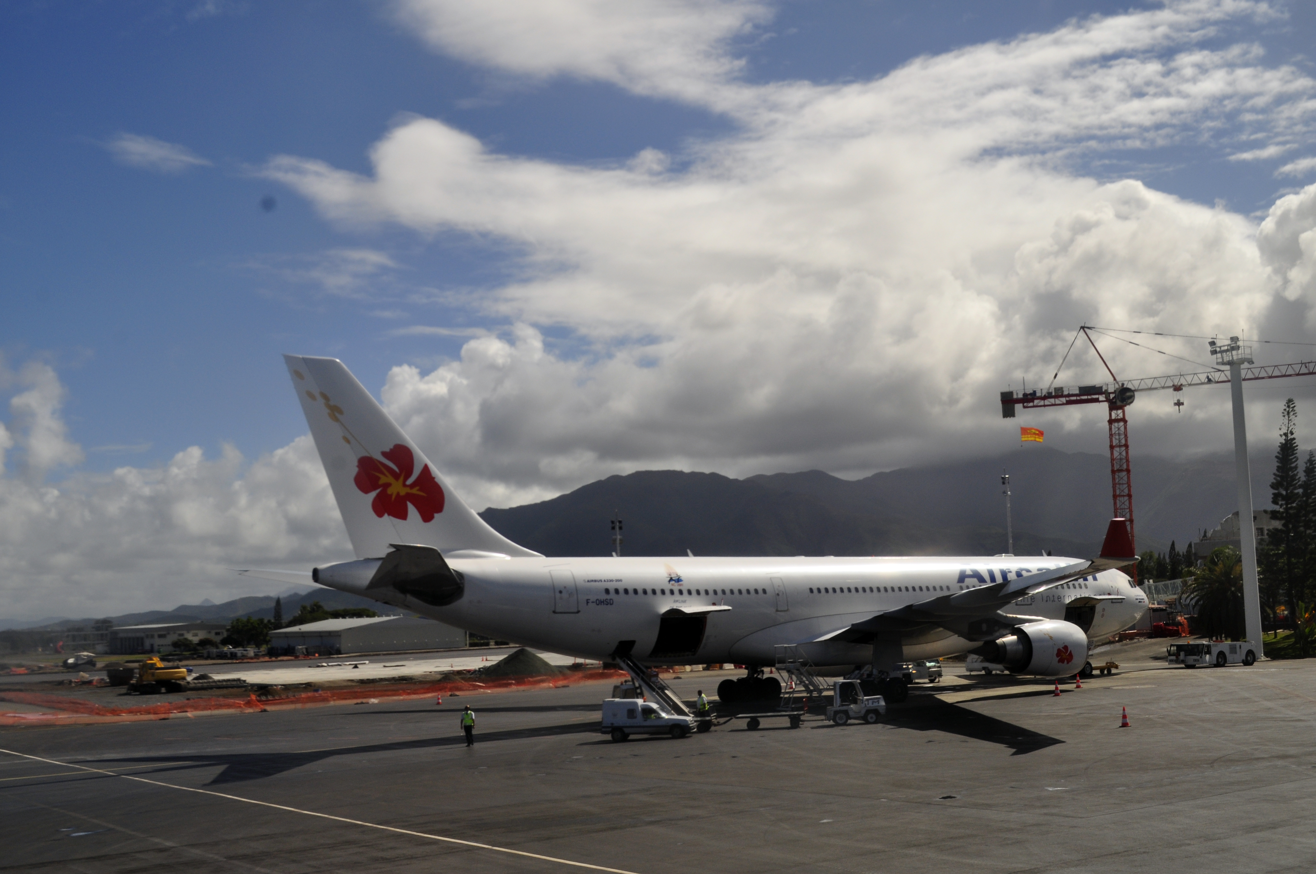 Aircalin aircraft at New Caledonia's international airport.